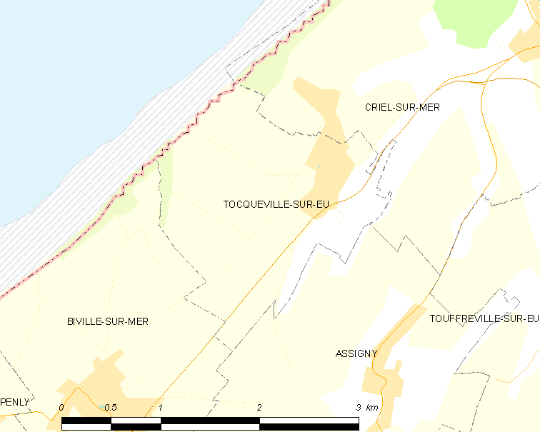 Map of French municipality Tocqueville-sur-Eu